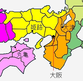 Fourth Army Region was composed of two divisional regions. The orange area of this map is the 7th Divisional Region. The yellow is the 8th Divisional Region. This file was derived of File:Gokishichido.svg..